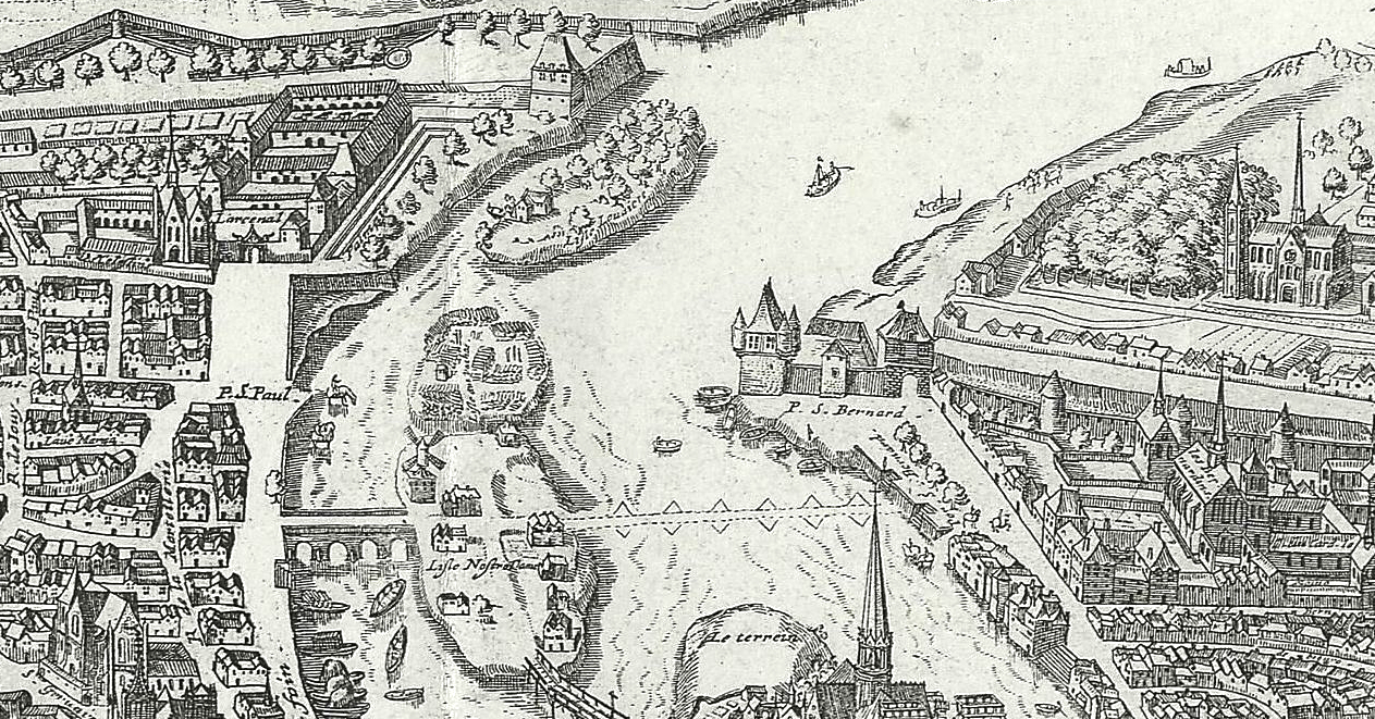 Île Louviers, Île aux Vaches, Île Notre-Dame 1630.